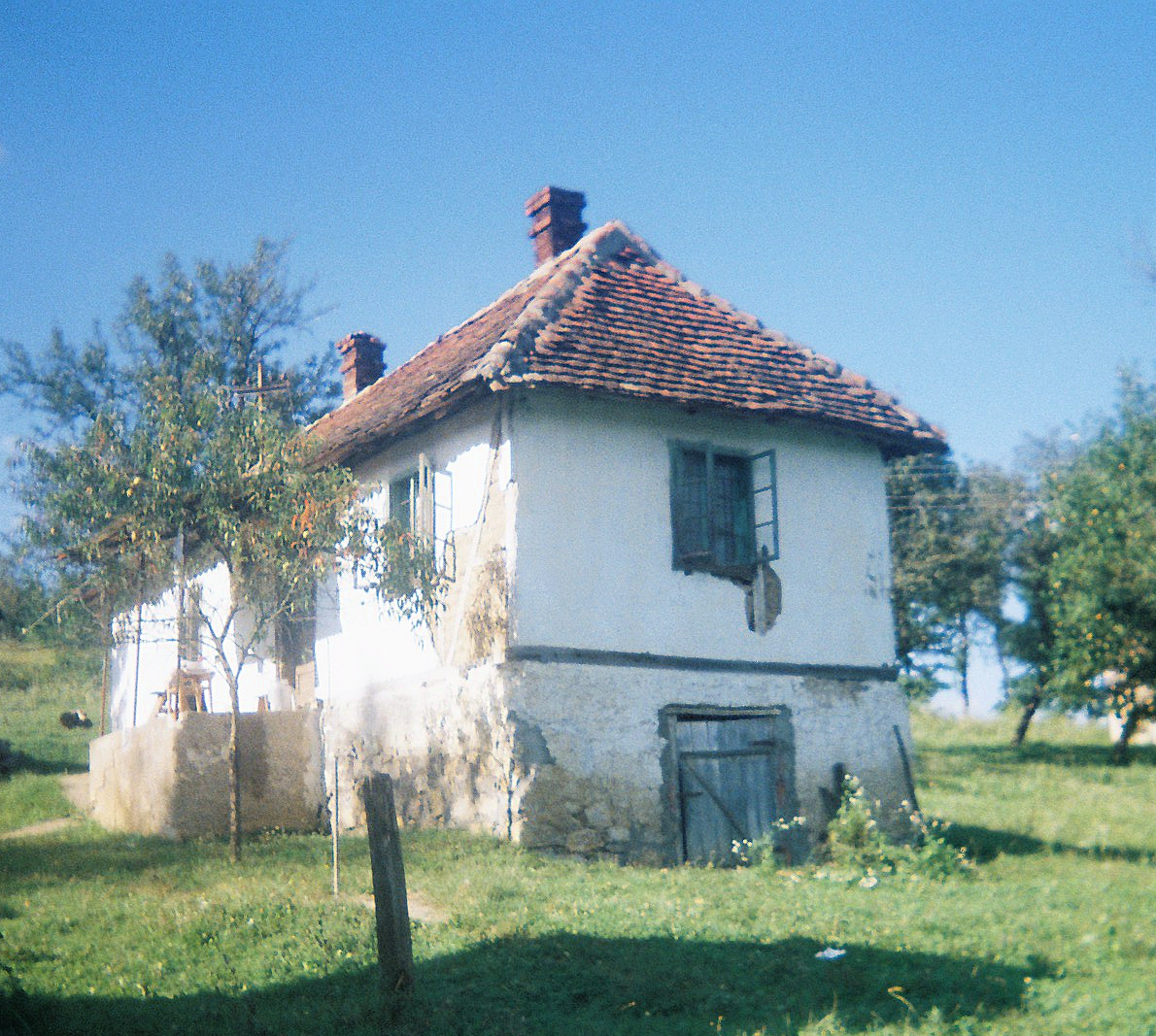 An old house in Donja Badanja, near Loznica, Serbia